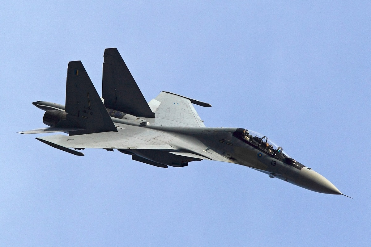 su30mkm flying at lima